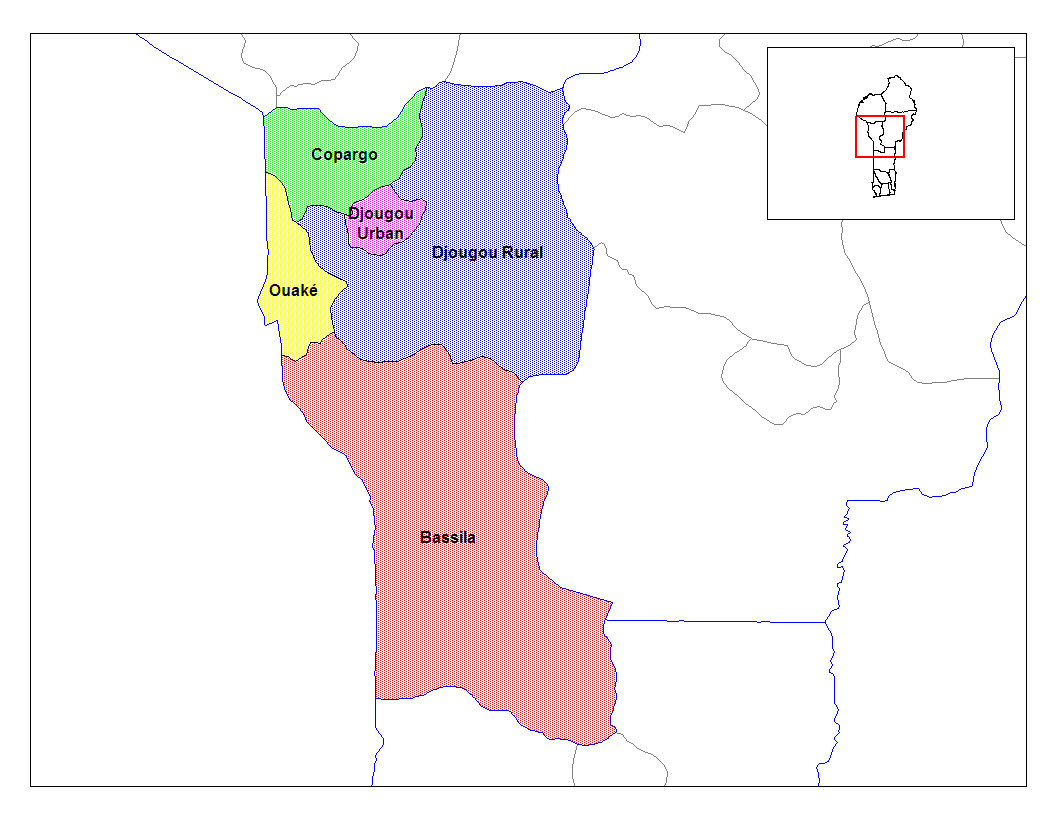 Map of the communes of the department of Donga, Benin. Created by Rarelibra for public domain use. Created using MapInfo Professional v7.5 and various mapping resources.